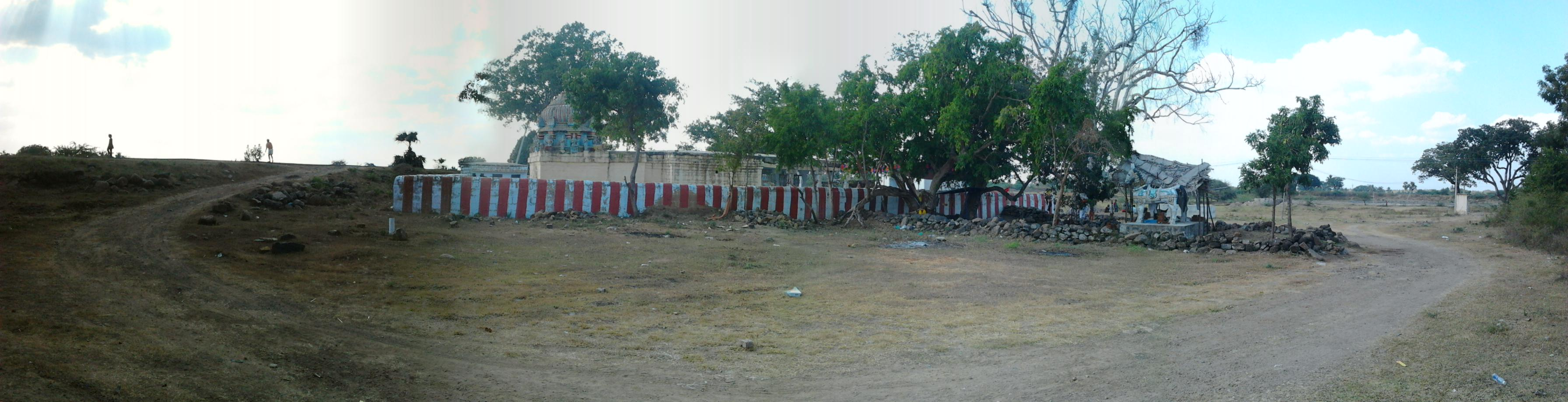 A panoramic view near Chelliamman (Or Selliamman) Temple at Perumathur Village on January 20, 2013 in Perambalur, India.